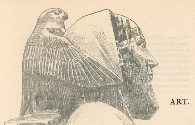 The nature of early Egypt